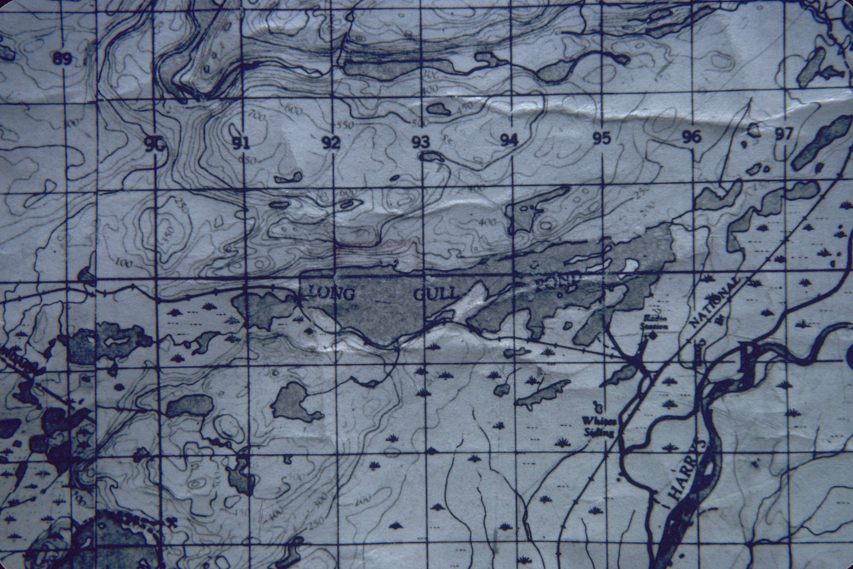 Map of Long Gull Pond, topographic US Army, Stephenville Newfoundland before the Hanson Memorial Highway was built